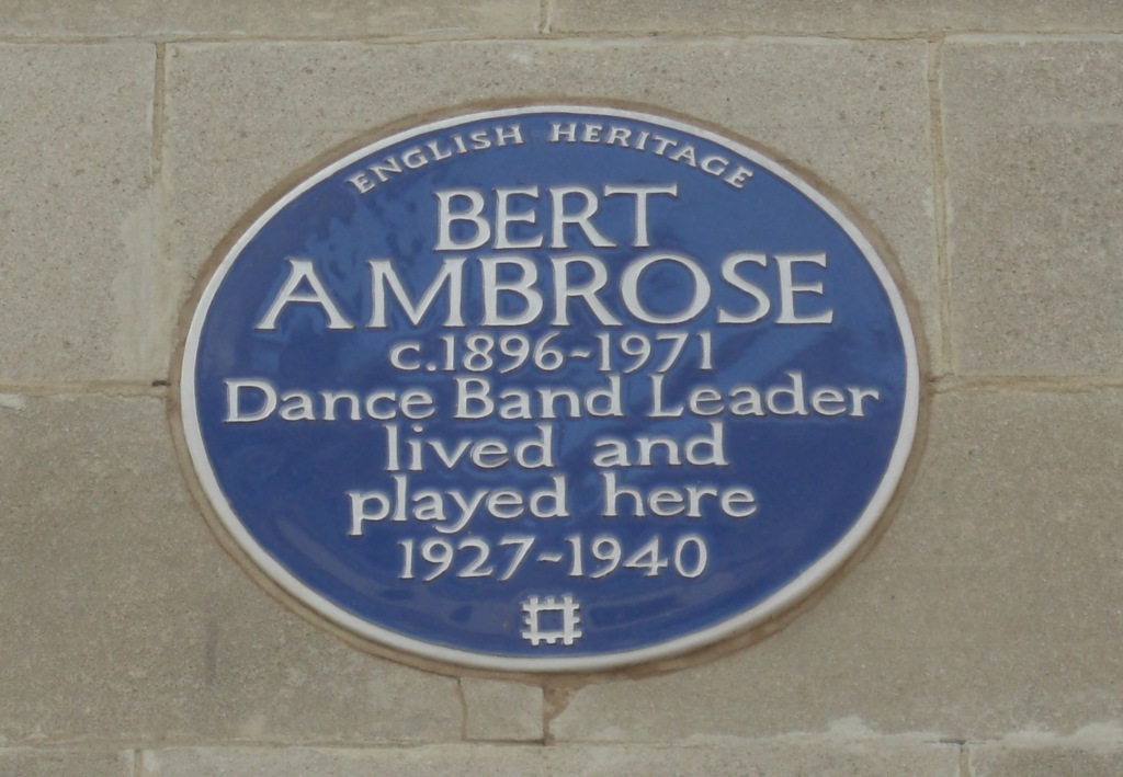 Tribute to Bert Ambrose at the Mayfair Hotel in London. Plaque erected in 2005 by English Heritage at The May Fair Hotel, Stratton Street, Mayfair, London W1J 8LT, City of Westminster